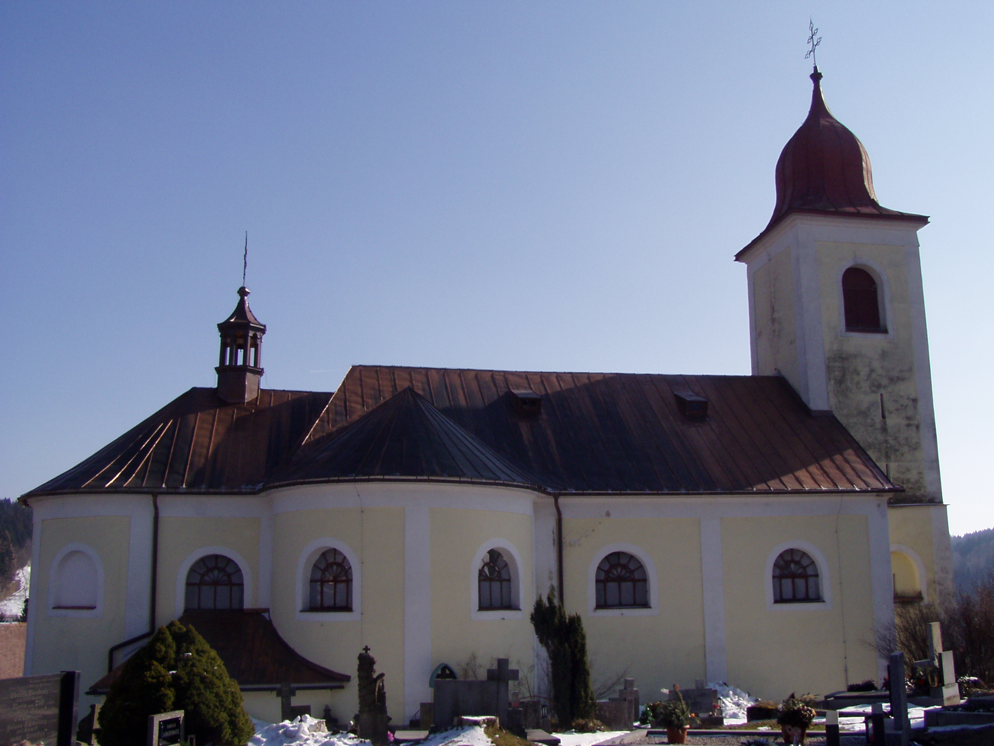 Church of Saint Mary Magdalene (Olešnice v Orlických horách)